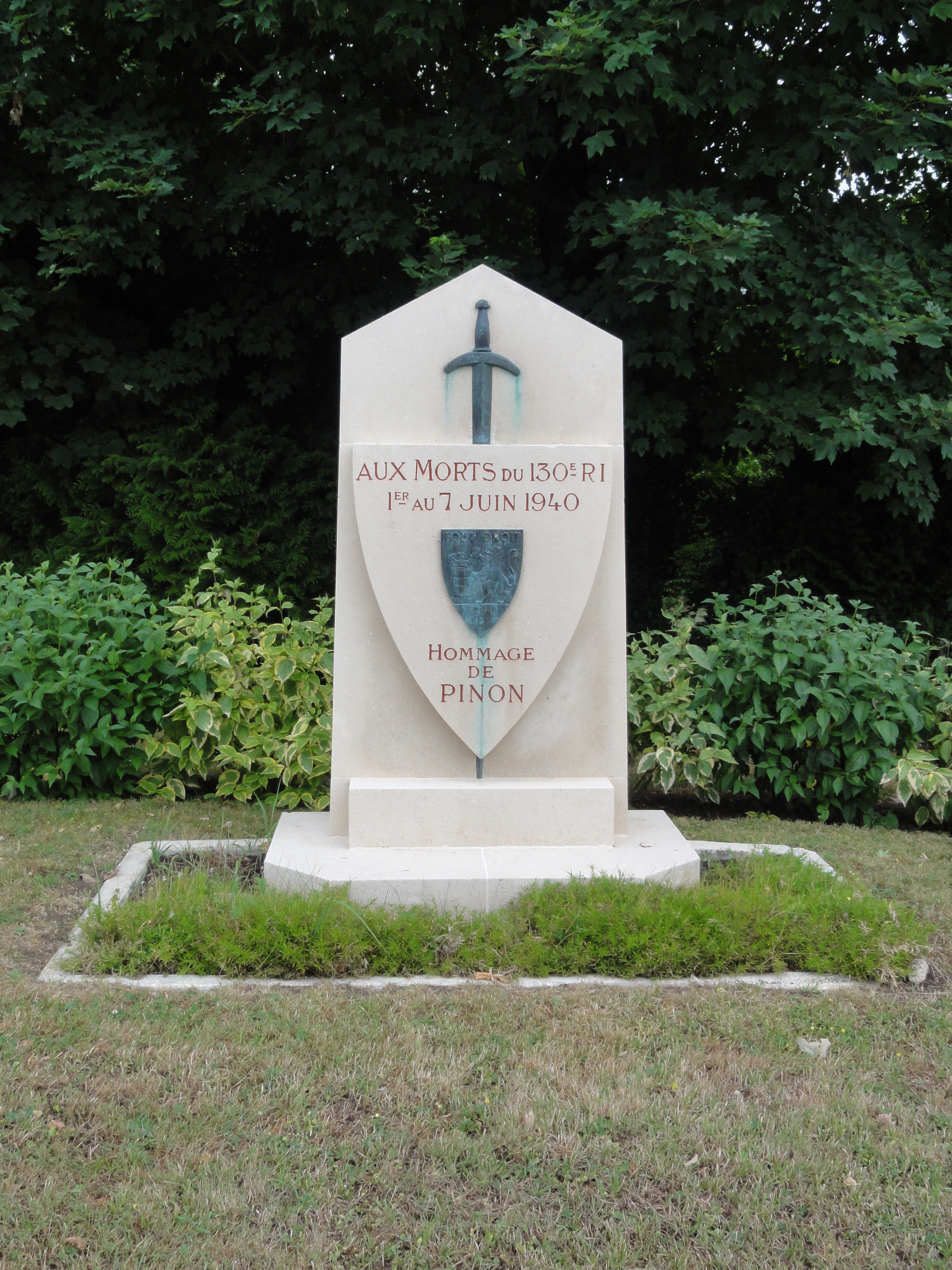 Pinon (Aisne) memorial 130e R.I.